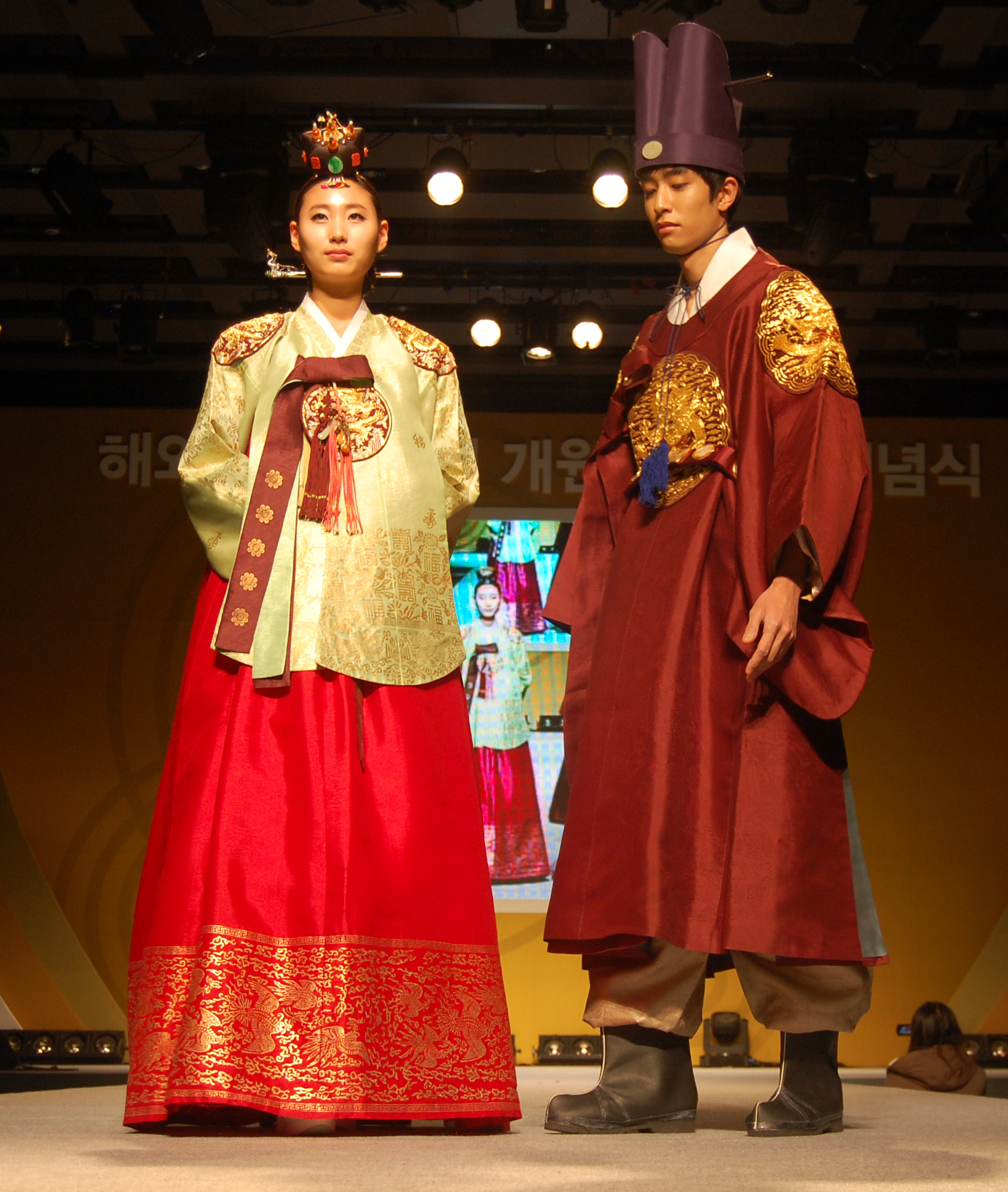 Leading Hanbok designer Lee Young-hee presents modern interpretations of traditional designs in a Hanbok fashion show to celebrate the Korean Culture and Information Service (KOCIS)'s 40-year anniversary on Dec. 19, 2011